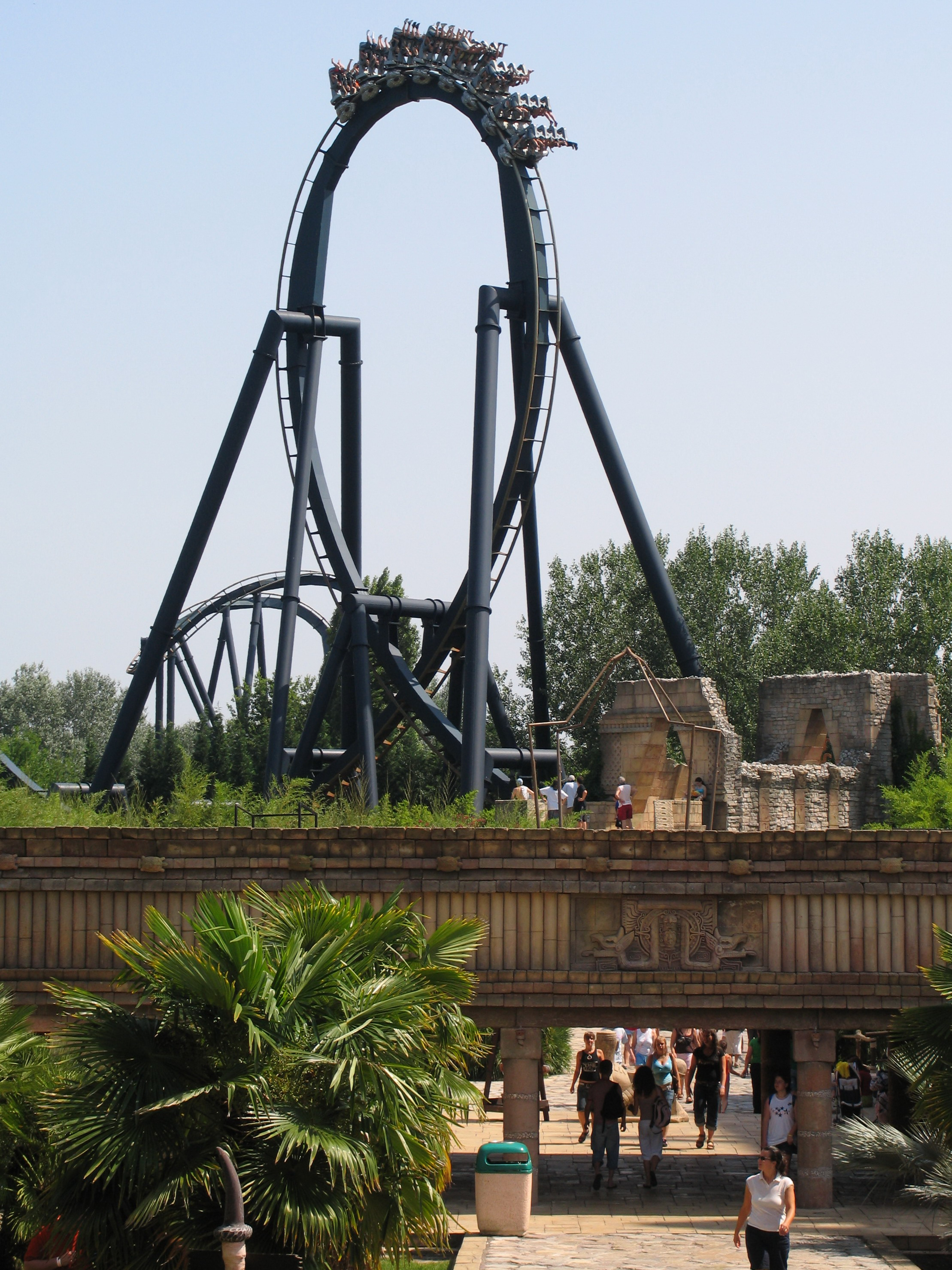 Looping of Inverted Coaster Katun at Mirabilandia